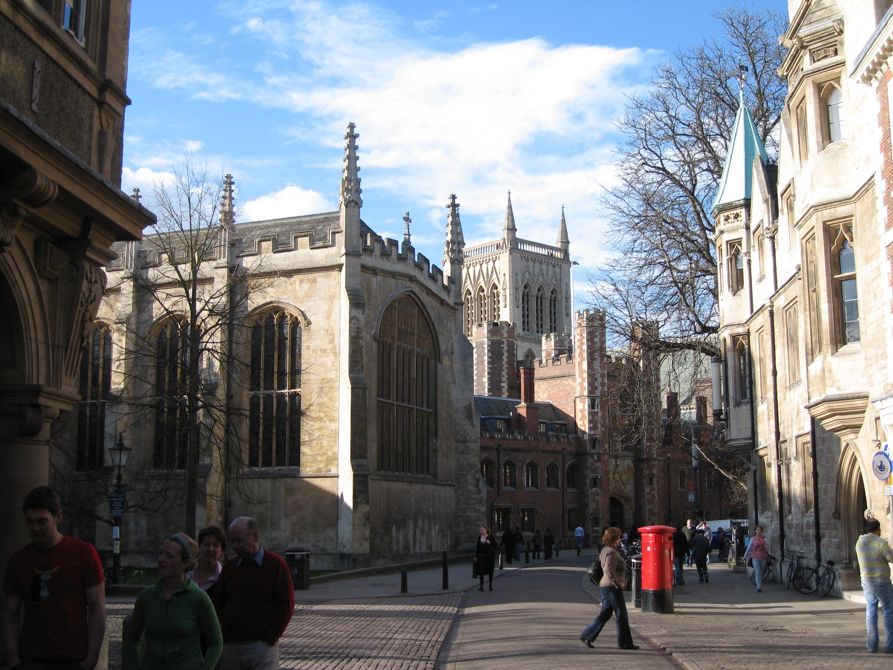 Trinity Street, Cambridge looking towards St John's Street. St. John's College can be seen in the background.